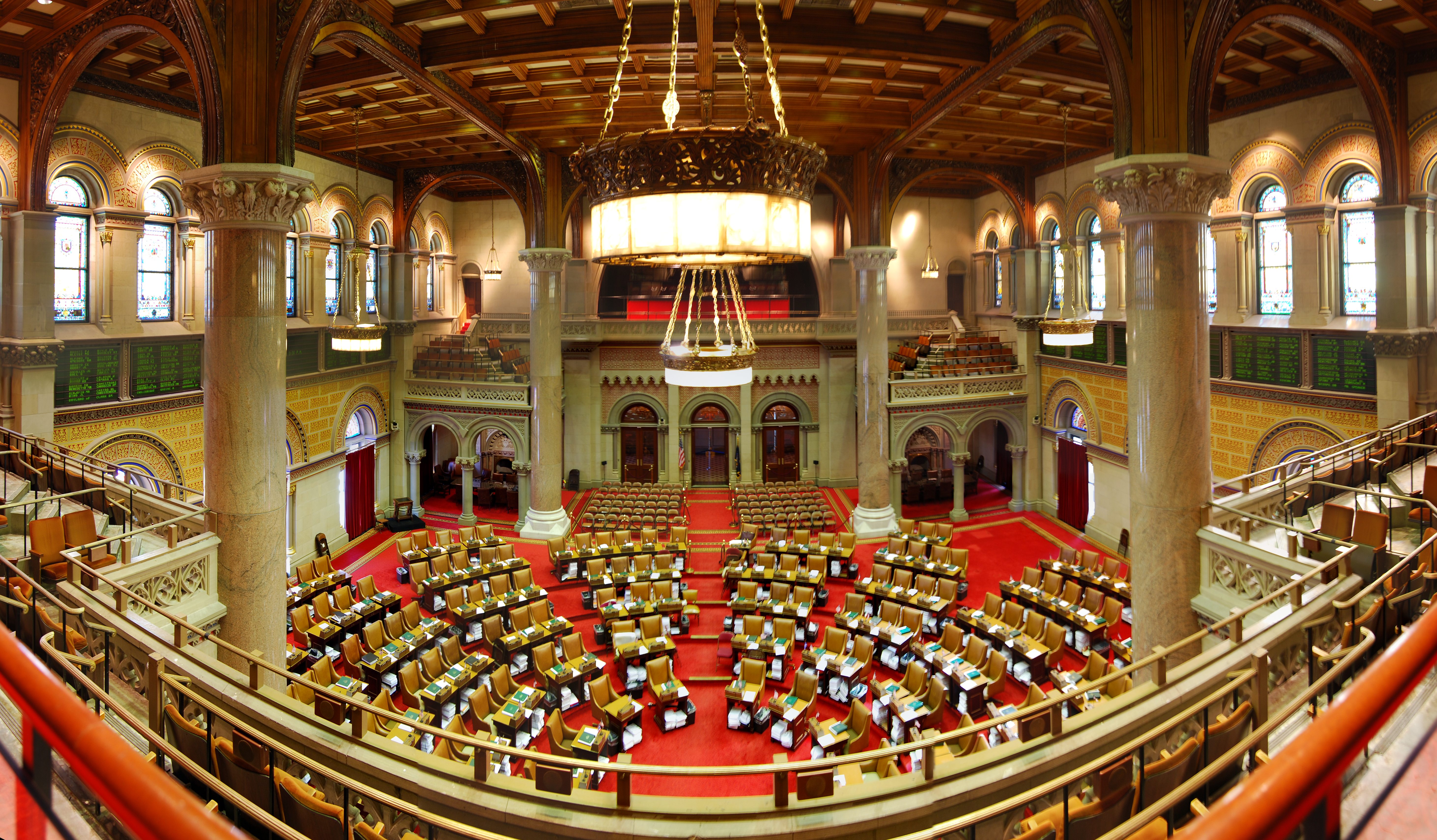 Chamber of the New York State Assembly, the lower house of the New York State Legislature, located in the New York State Capitol in Albany, New York, United States.